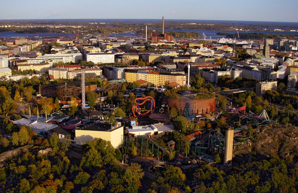 Linnanmäki from air